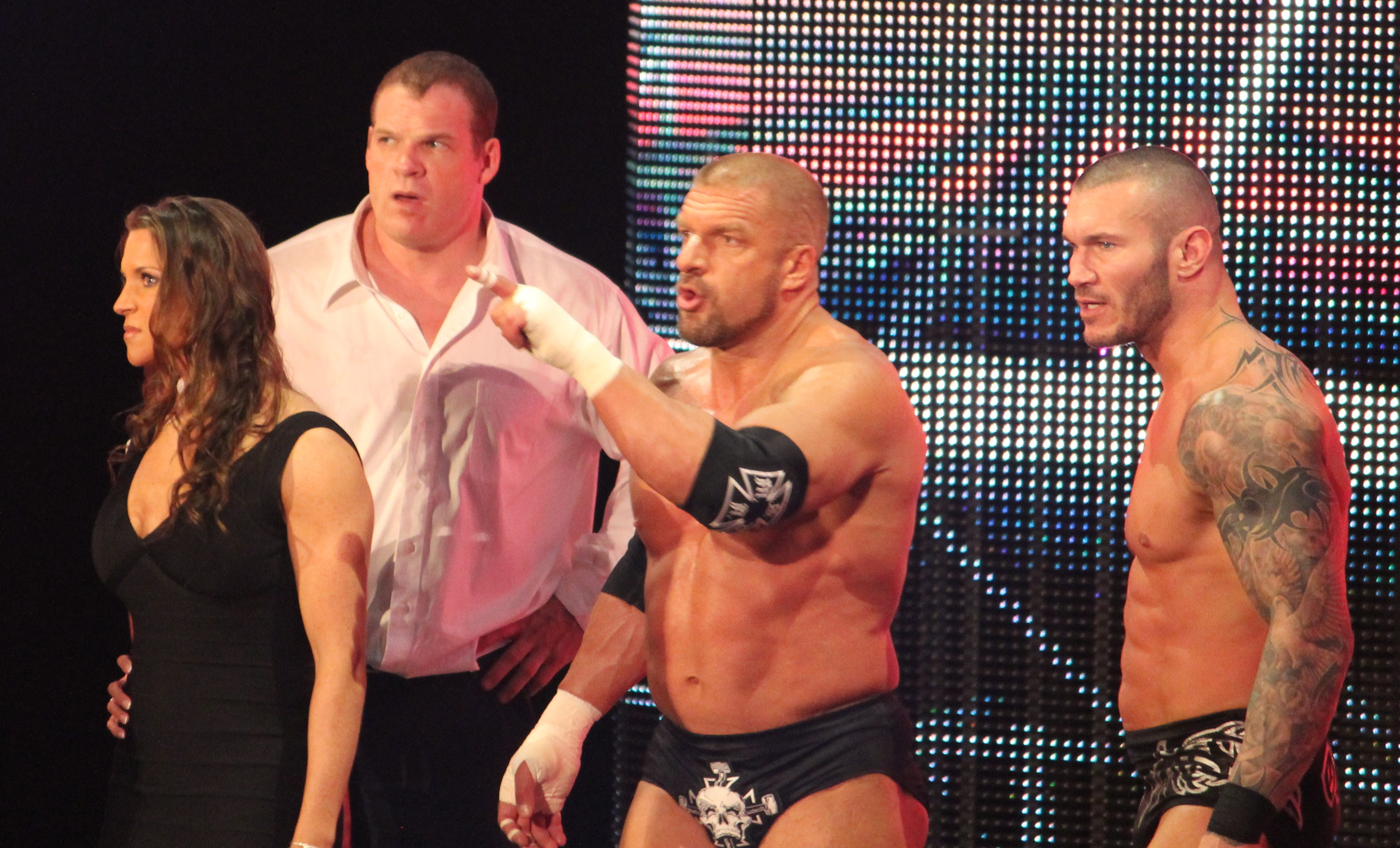 The Authority (Triple H, third from left and Stephanie McMahon, far left) plus affiliated members Kane (second from left) and Randy Orton (far right) at the post-WrestleMania Raw on 7 April 2014 in New Orleans, Louisiana.